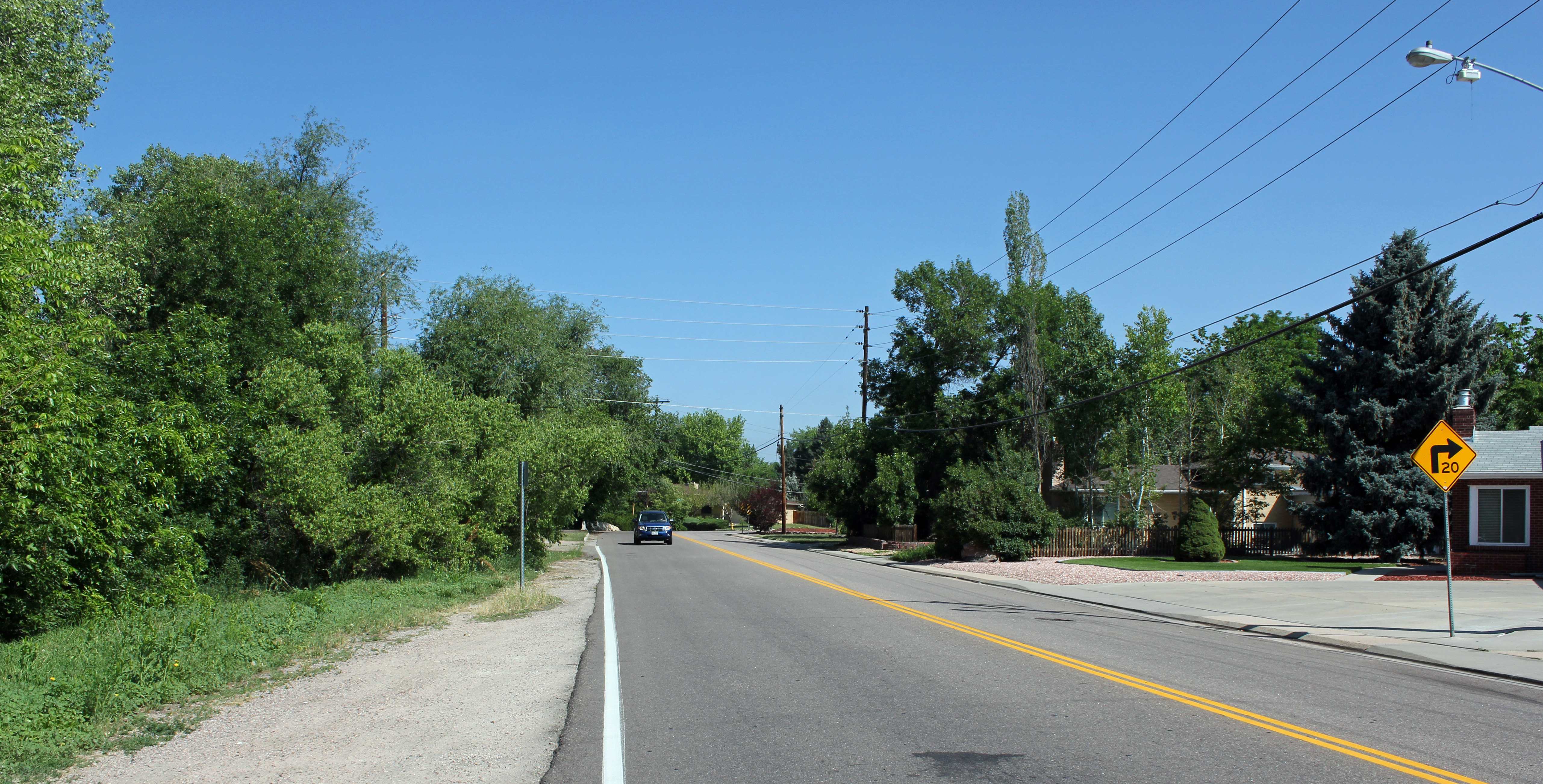 A view of Holly Street in the enclave of Holly Hills, Colorado. Holly Hills is a section of unincorporated Arapahoe County that is completely surrounded by the City and County of Denver, Colorado. The Highline Canal is on the left side of the picture. The view is to the north.